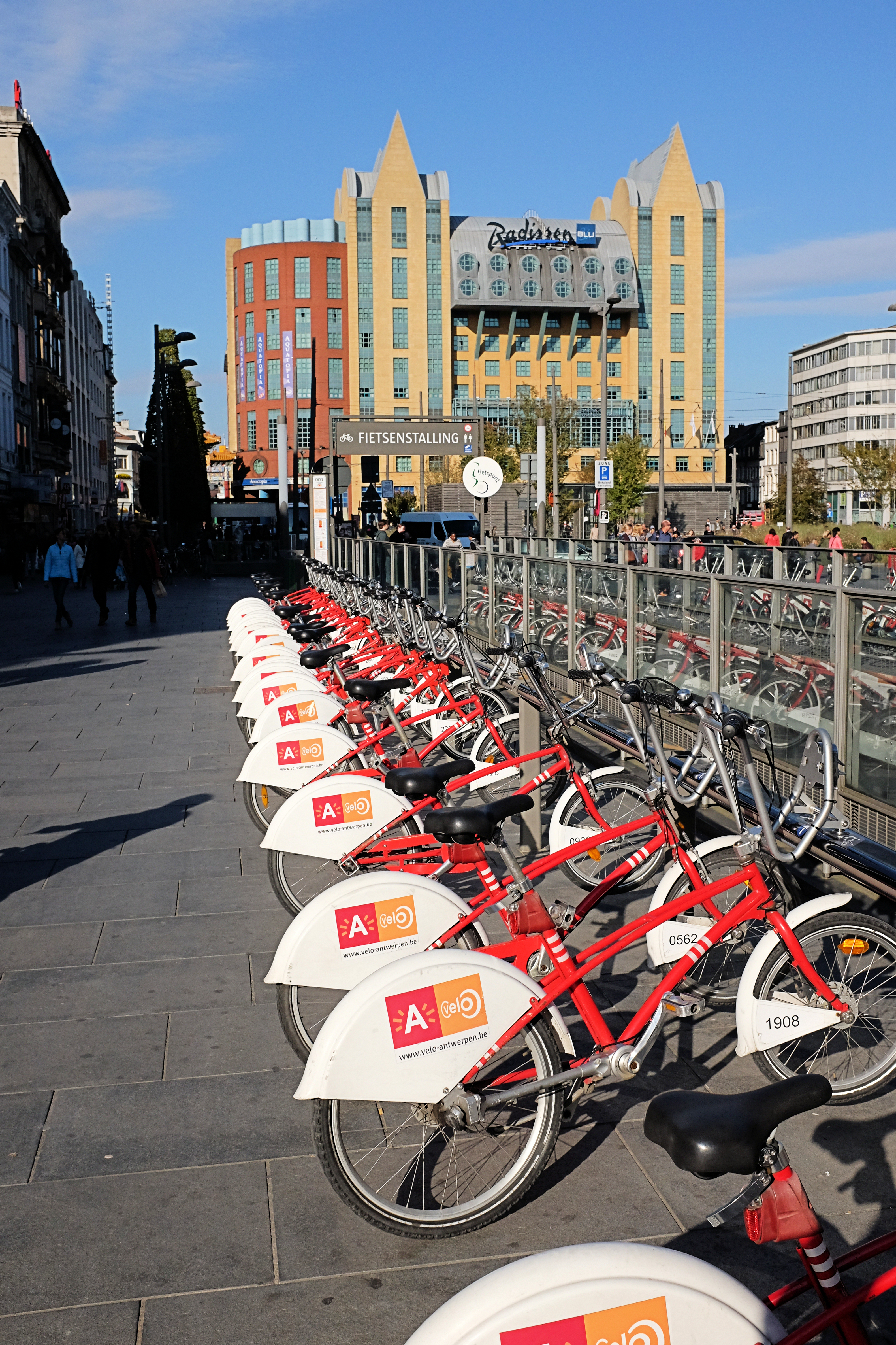 Velo Antwerpen Astridplein